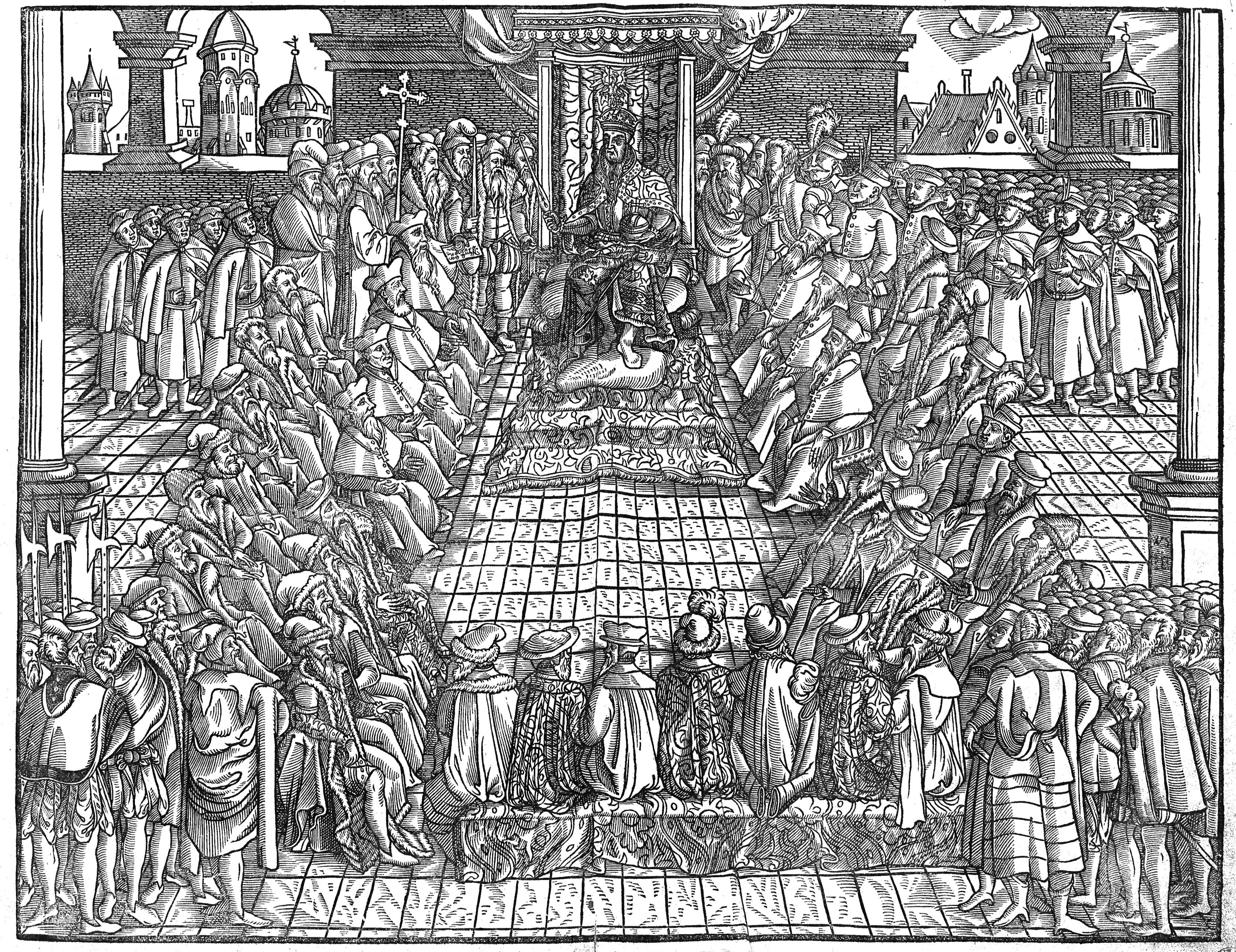 Polish Crown Sejm during the Reign of Sigismund II Augustus